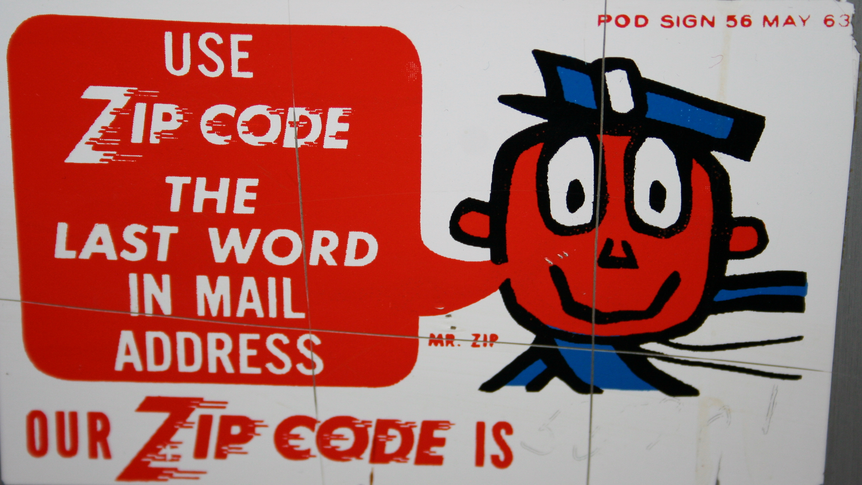 ZIP code promotional sign with "Mr. ZIP" on a hotel letter drop.